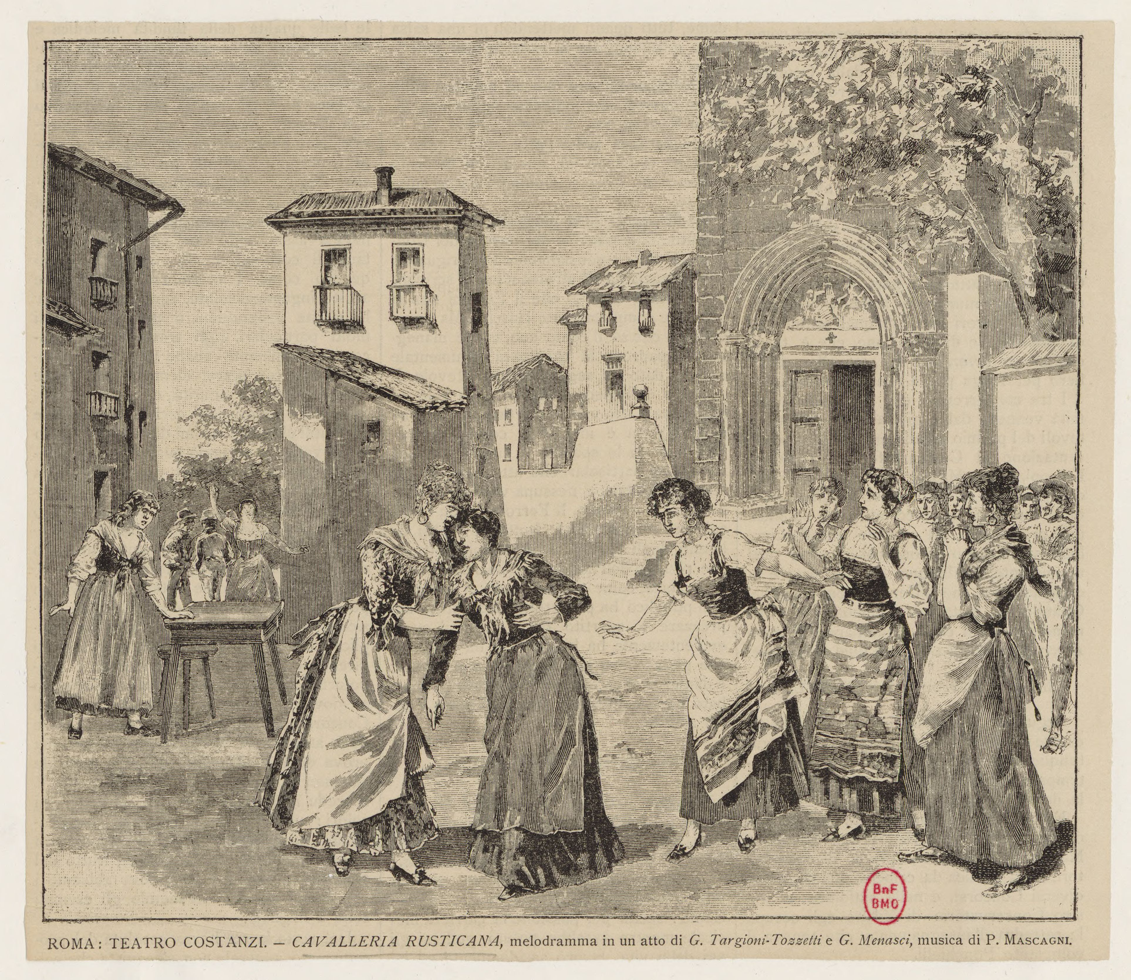 Depiction of a scene from Pietro Mascagni's opera Cavalleria rusticana at the opera's world premiere, 17 May 1890, Teatro Costanzi, Rome